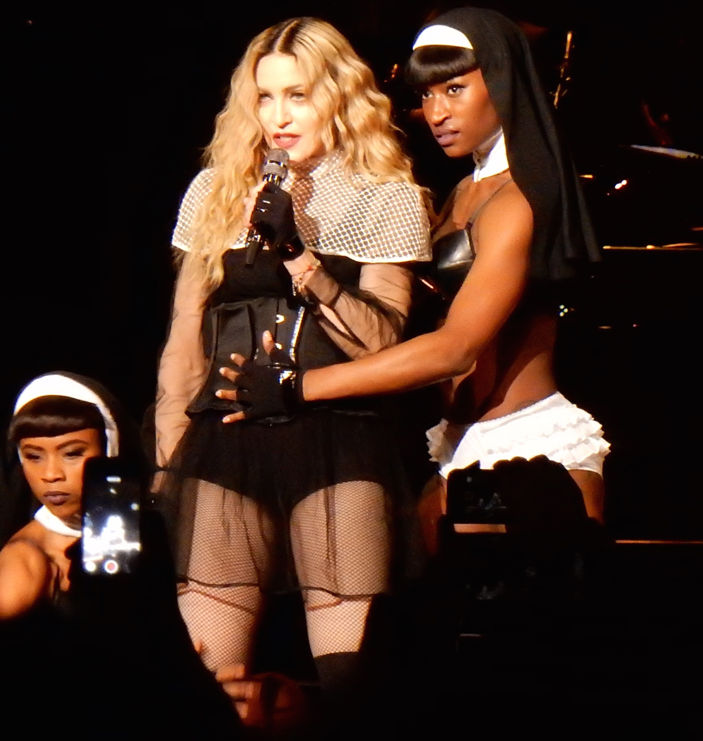 file modified